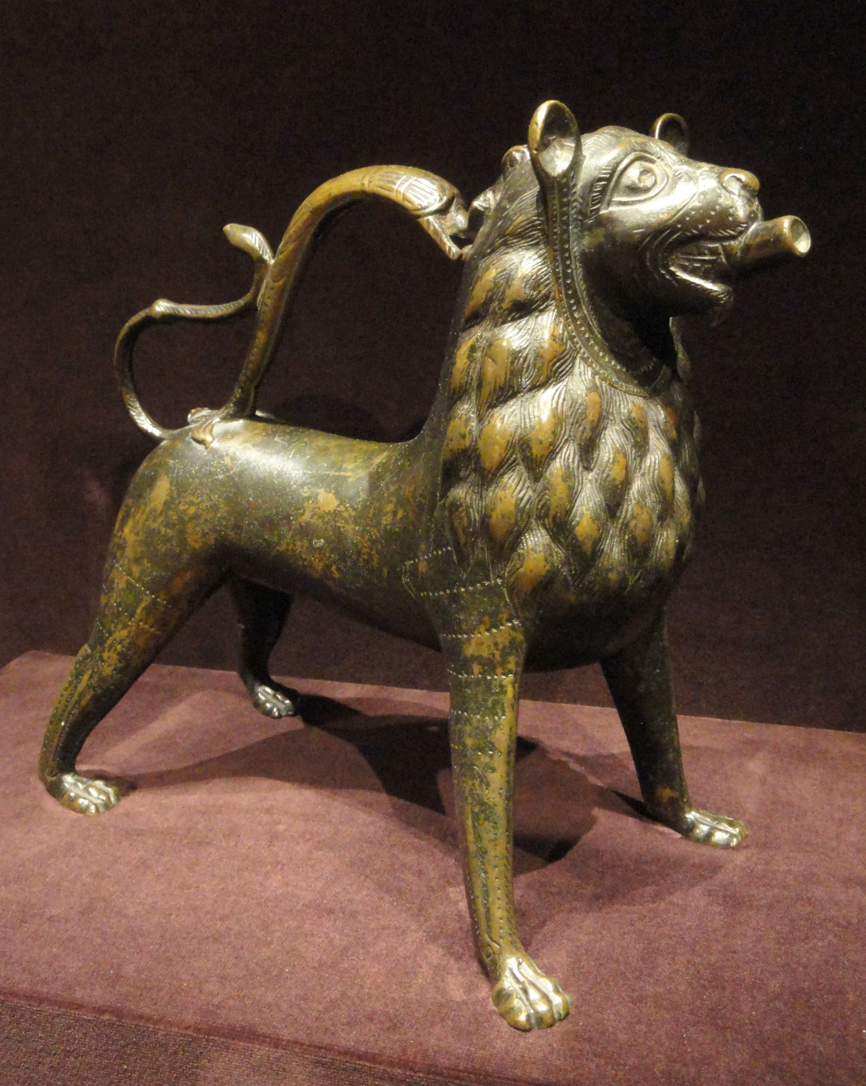 Exhibit in the Cleveland Museum of Art, Cleveland, Ohio, USA. This artwork is old enough so that it is in the public domain.